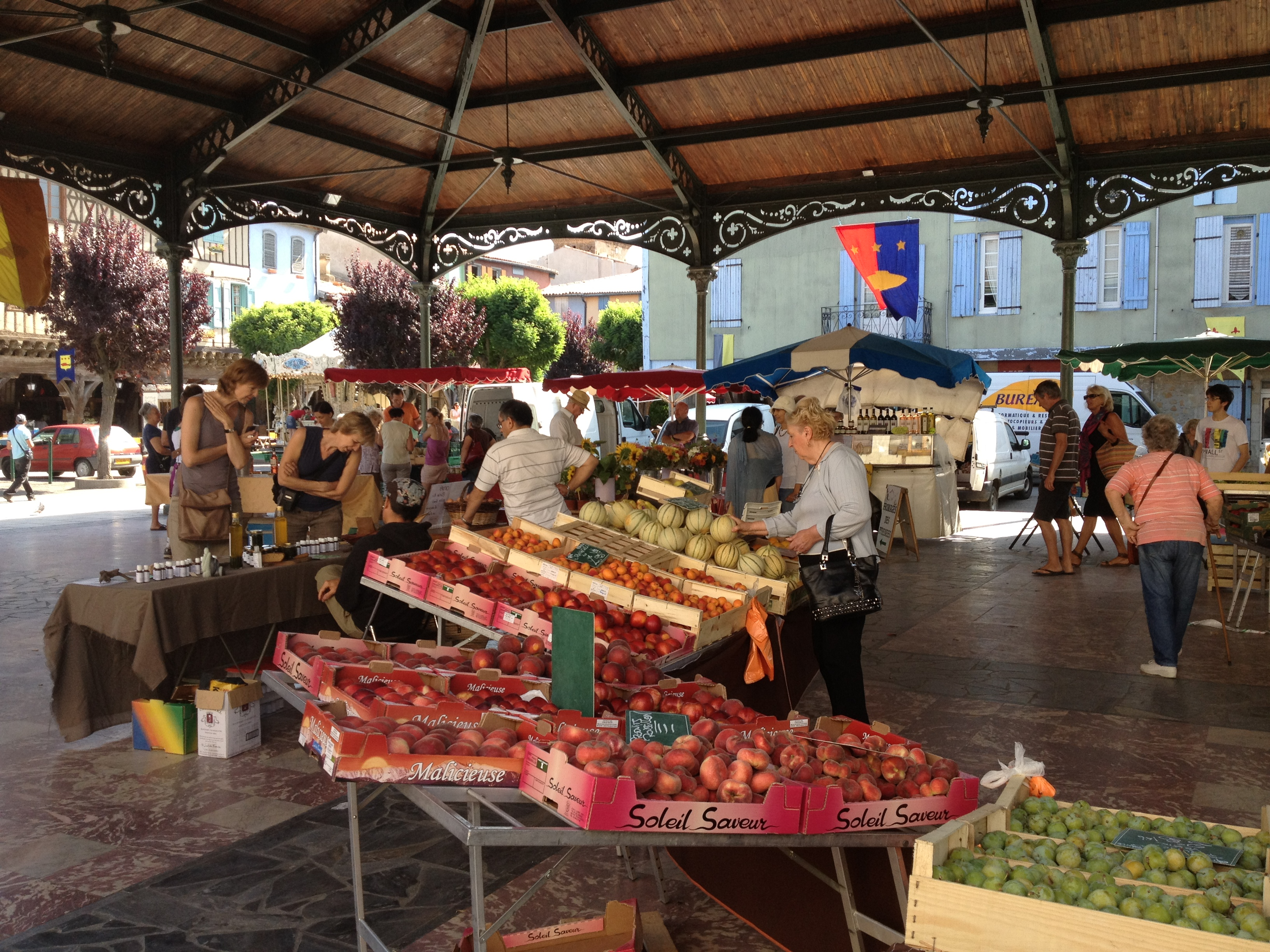 The farmers' market in Mirepoix, Ariège, France.